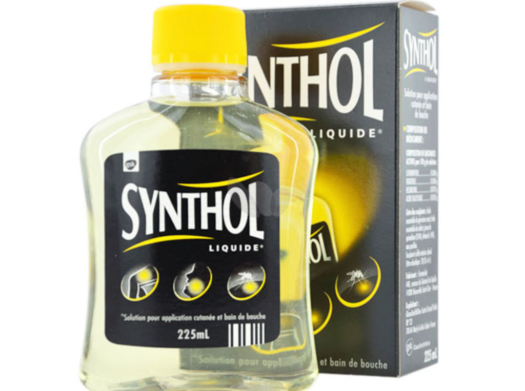 Synthol